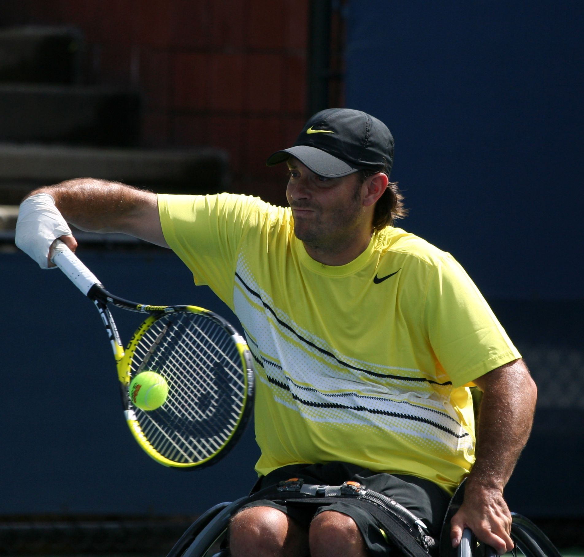 U.S. Open Wheelchair Thursday, Sept. 8, 2011